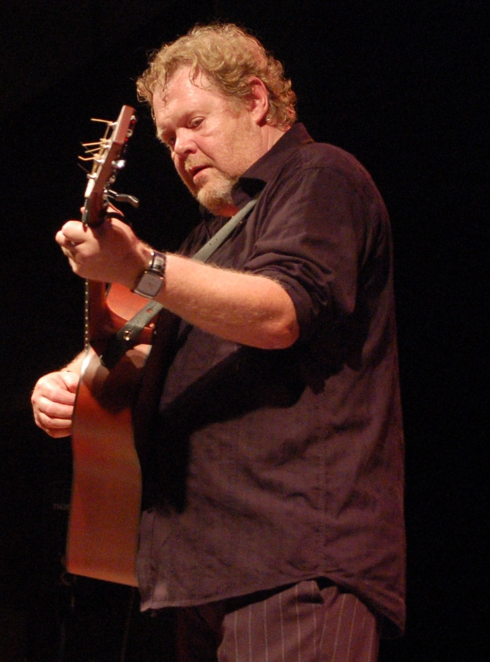 Sebastian (Danish musician) on stage in Tønder, 25 August 2006